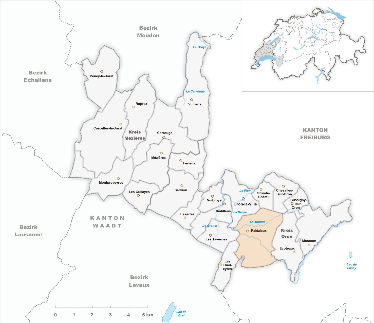 Municipality Palézieux